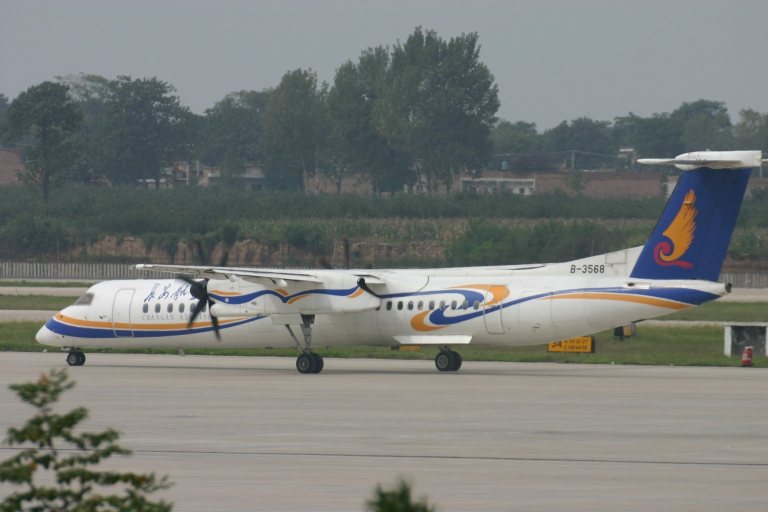 At Xi'an Xianyang International Airport